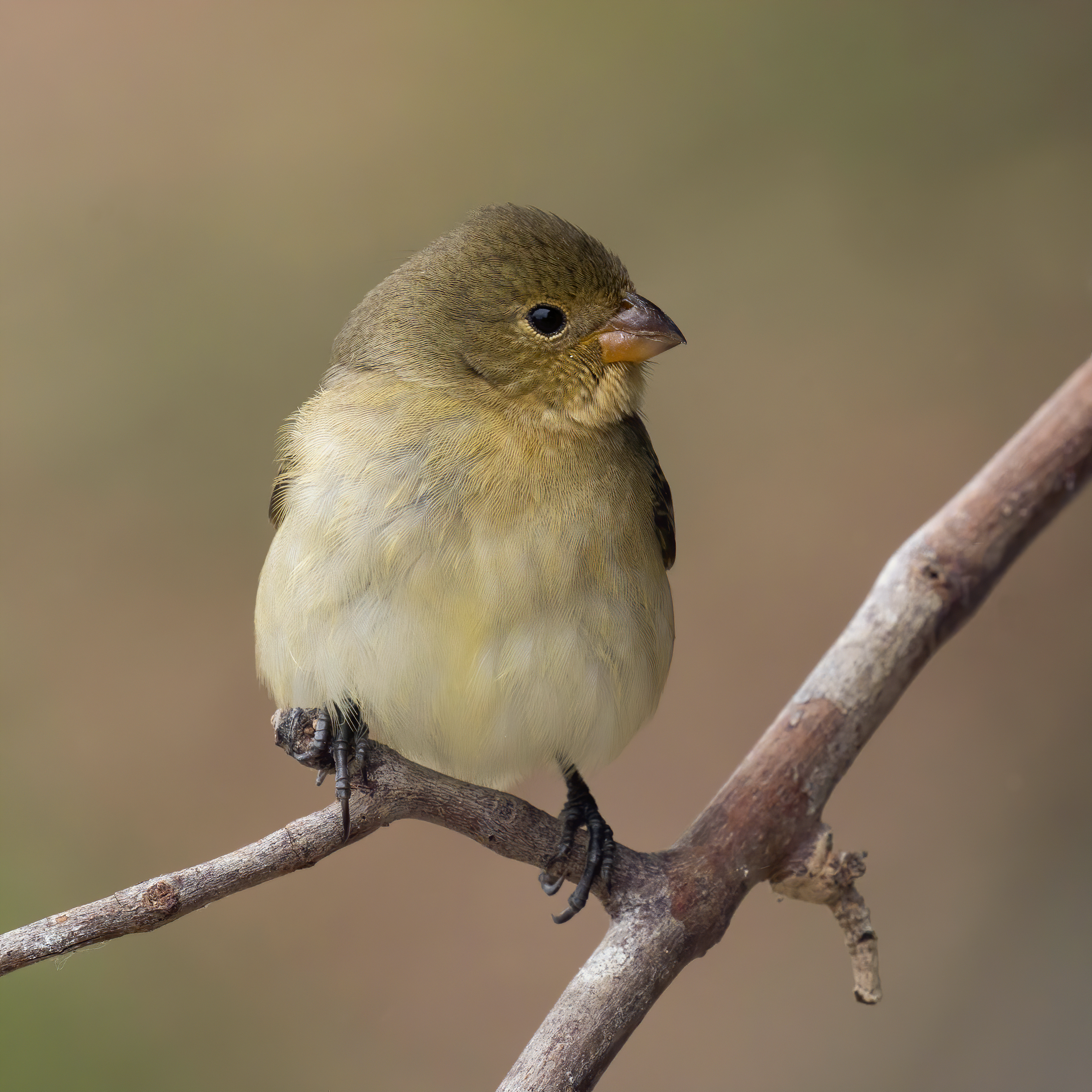 Seedeater (Sporophila sp.) female, the Pantanal, Brazil